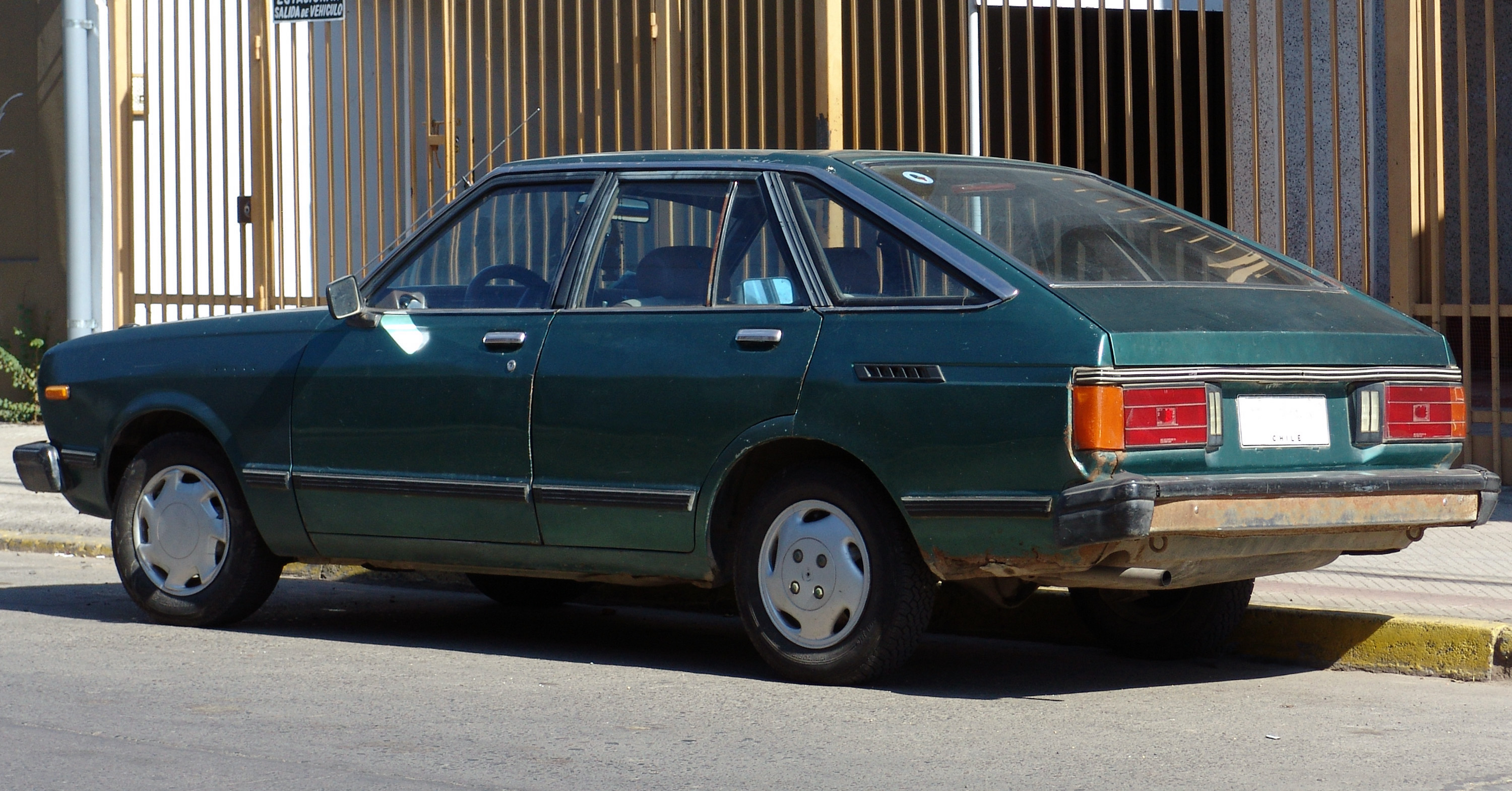 1981 Datsun 160J Liftback in Chile